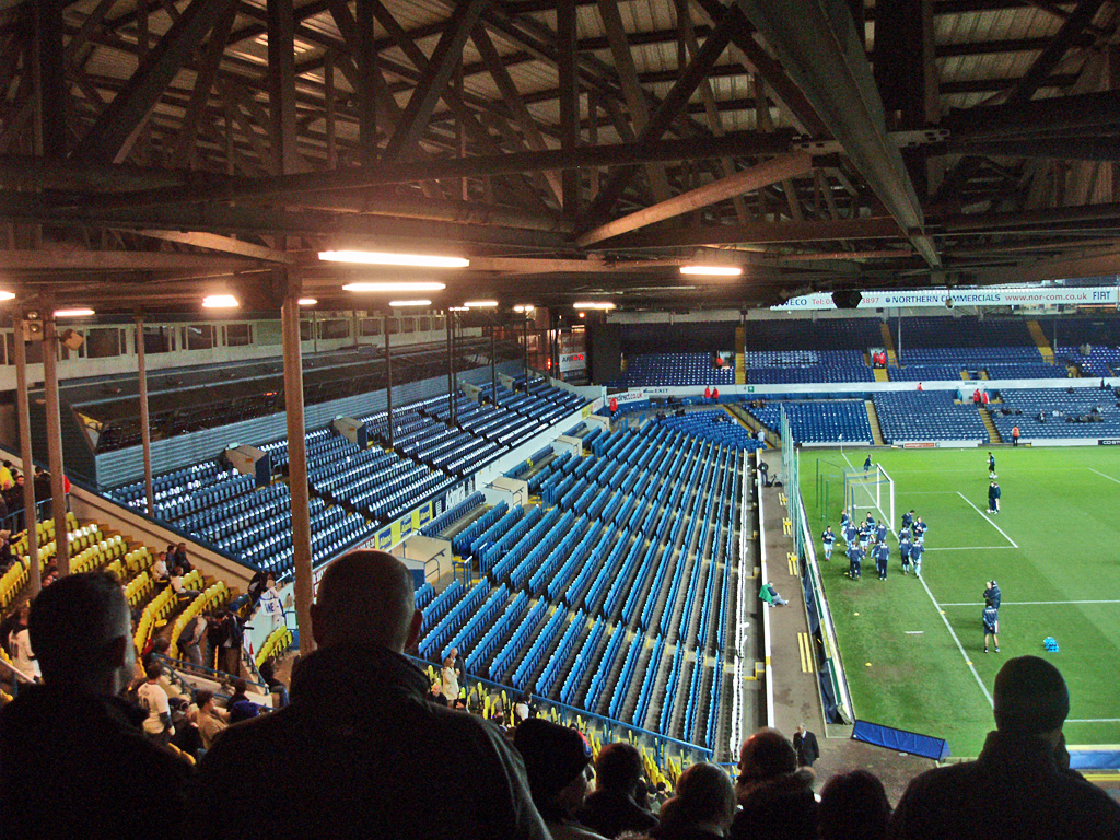 South Stand at Elland Road football ground, home of Leeds United FC. Tuesday 13th November 2007